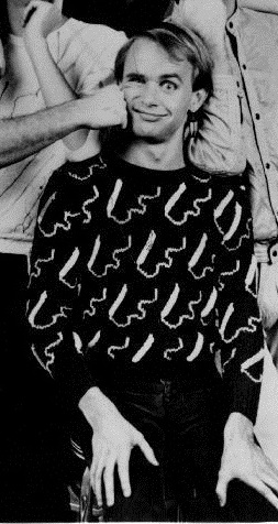 Men at Work in 1983 Top: John Reese Middle: Jerry Speiser, Ron Strykert, Colin Hay Bottom: Greg Ham